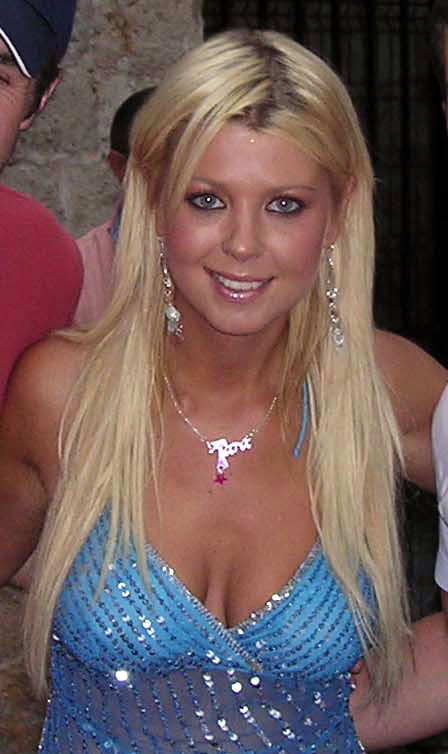 The American actress Tara Reid.